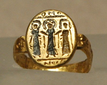 Wedding ring, Byzantium, 7th c. AD, nielloed gold.